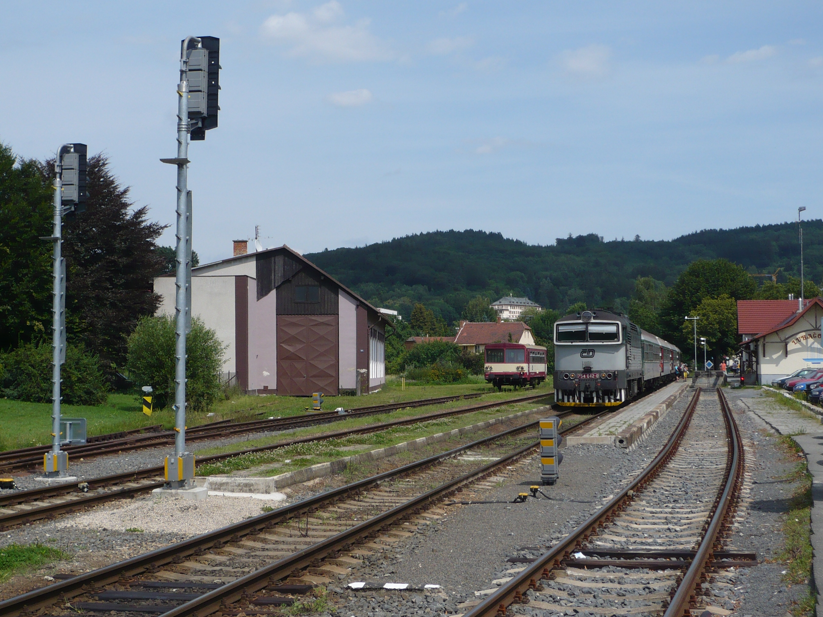 754 042 0 with Ex 528 Velehrad in Luhačovice. Scheduled departure from Luhačovice 14:14, scheduled arrival to Prague main station 18:54 (distance 354 km).